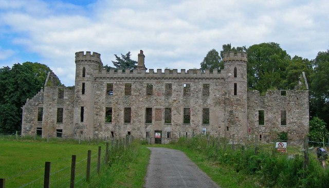 Ruined Fetternear House, Kemnay Archaeological dig in process as of summer, 2007